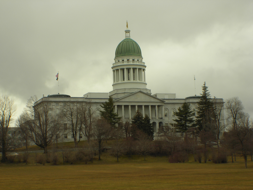 Maine State House